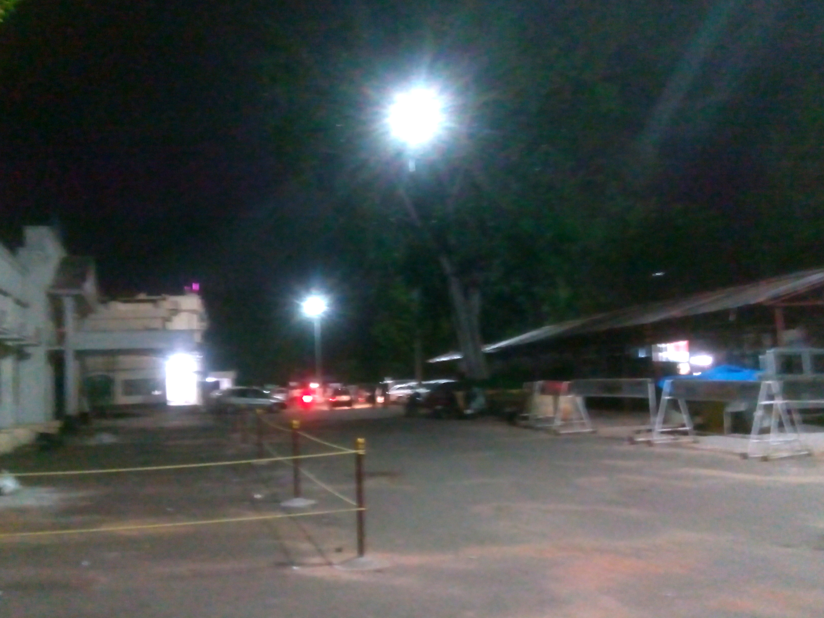 Rajamandry Godavari Pushkaralu 2015 (Godavari Kumbhamela)